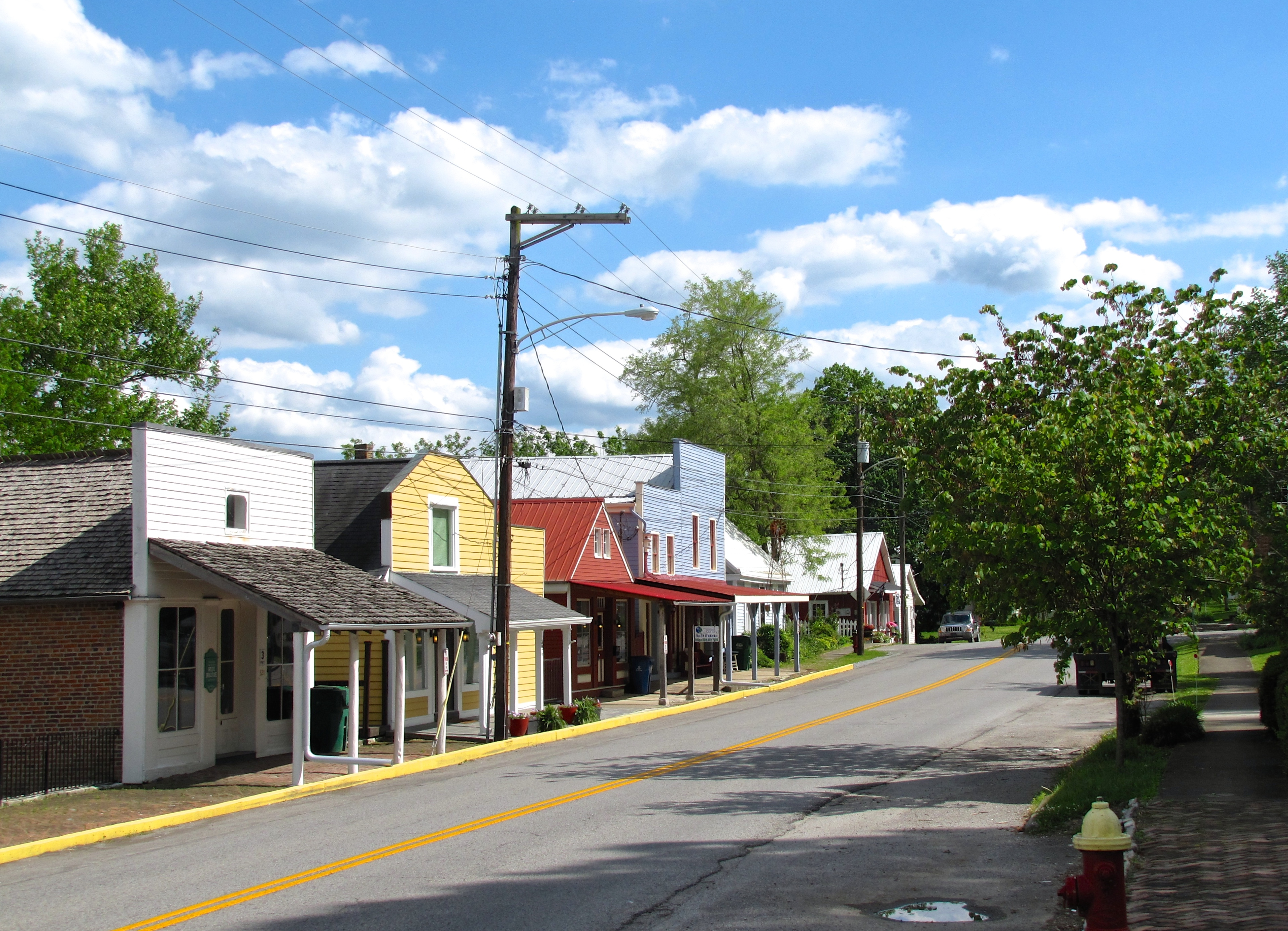 Shops along South Buell Street (part of "Merchants' Row") in Perryville, Kentucky, United States. The building with the white façade is Green's Drug Store; the yellow building to its right is known as Griffin's Store; the red building is known as Burton's Store; the light blue building is Lattimore's Store. All four were originally constructed in the 1840s.